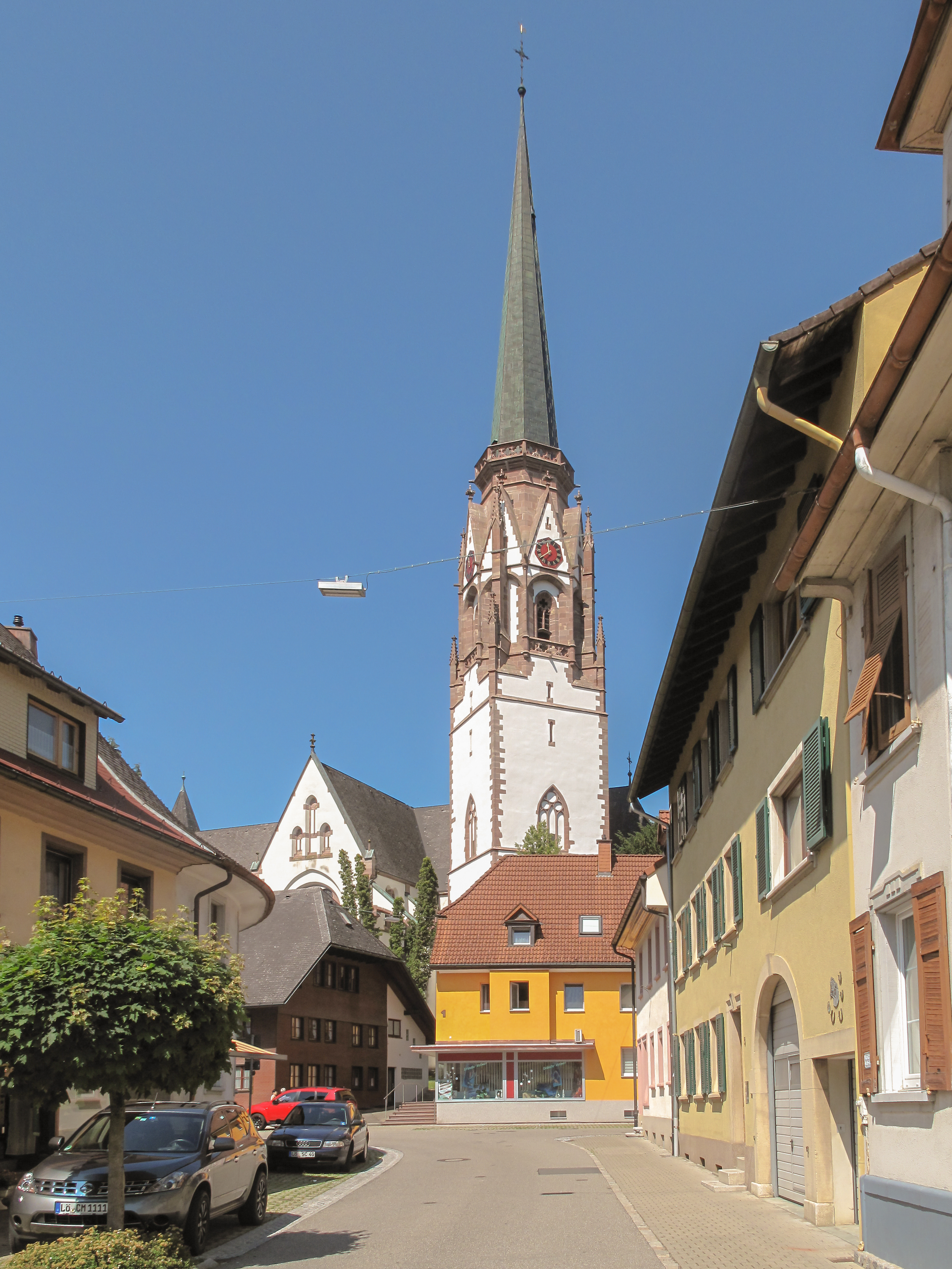 Schönau im Schwarzwald, church: die Pfarrkirche Mariä Himmelfahrt